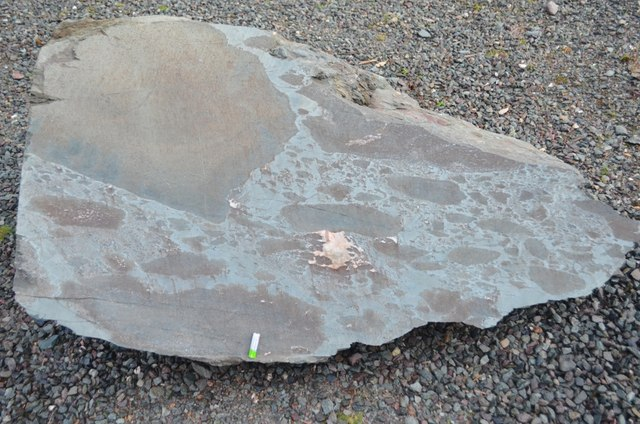 Andesitic Peperite. This was removed from Ghyll Scaur quarry. It shows the reaction between hot andesitic magma (900C?) and groundwater rich volcanic derived ash. The andesite has explosively fragmented as mini steam explosions ripped through the ash. There is no baked margin in peperites as steam is an excellent insulator. The rock is part of the Borrowdale volcanic group. It represents Ordovician (450ma ish) rocks formed on an Avalonian island arc. The intermediate composition of the arc led to seriously violent ultra-Plinian explosions. The line of volcanoes preserves some of the most explosive eruptions known to man. Mapping of the Scafell caldera in the 1980s discovered more of these massive volcanoes. These eruptions would have blocked out the sun from most of the planet. Gas thrust of the rapidly degassing magma emplaced ash up into the stratosphere, with plumes reaching 50km. The ash matrix originated from pyroclastic density currents (PDCs) which sped down the volcano flank, possibly towards the end of the eruption with dome, caldera or plume collapse. (Battery at lower edge of rock, for scale.)